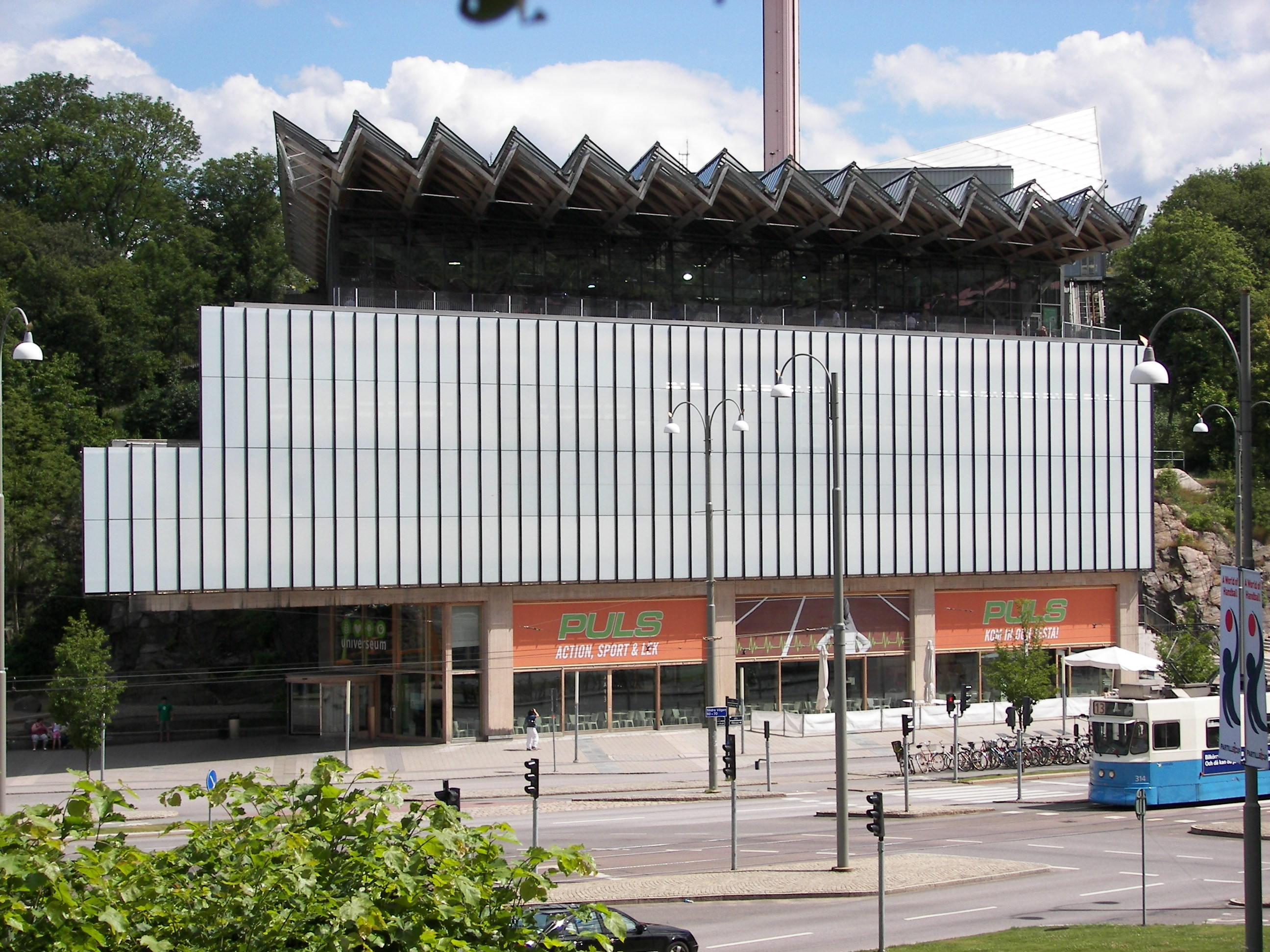 Universeum in Göteborg, Sweden